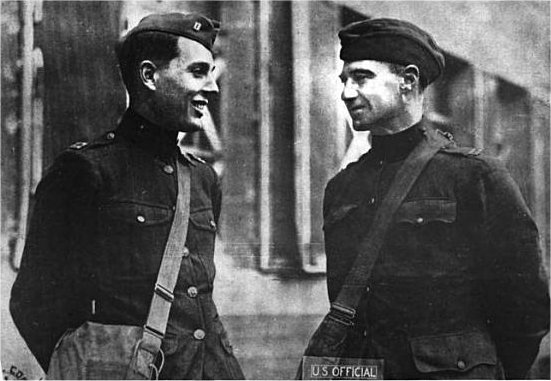 Original caption: "Captain Devereaux Milburn (left), son of John G. Milburn, and Captain C.F. Holmes, Aides-de-camp to Major General McRae - 78th Division. Photograph taken at Chatel Chehery." Milburn was a champion American polo player in the early 20th century and was one of the "Big Four" in international polo. He died in 1942.